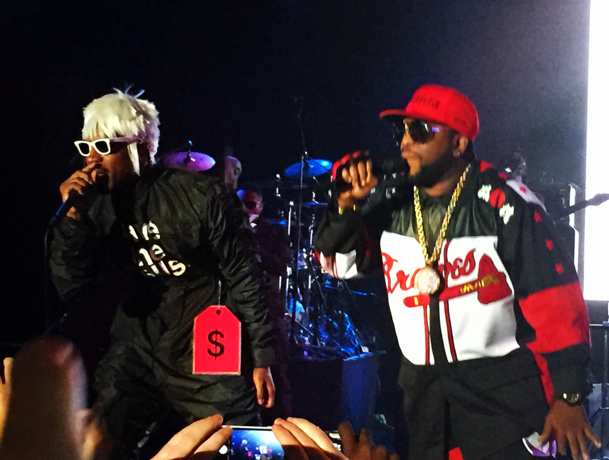 OutKast performing at the Best Buy Theater in Times Square New York for the Advertising Week party.